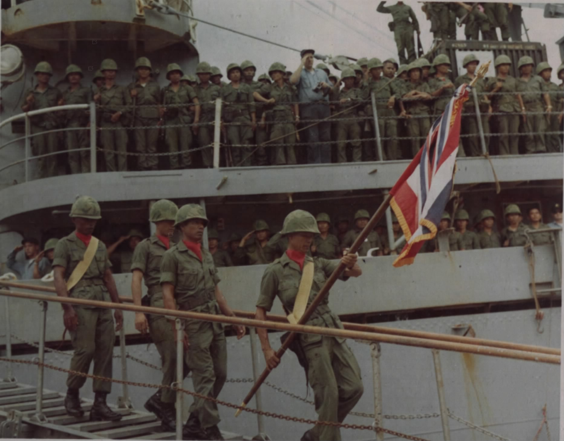 The main contingent of the Black Panther Division, Royal Thai Army Volunteer Force (RTAVF), arrive at Newport Docks aboard the USS Okanogan, an Assault Personnel Transport Auxillary 220. A member of the RTAVF carries the Royal Thai flag down the gangplank.